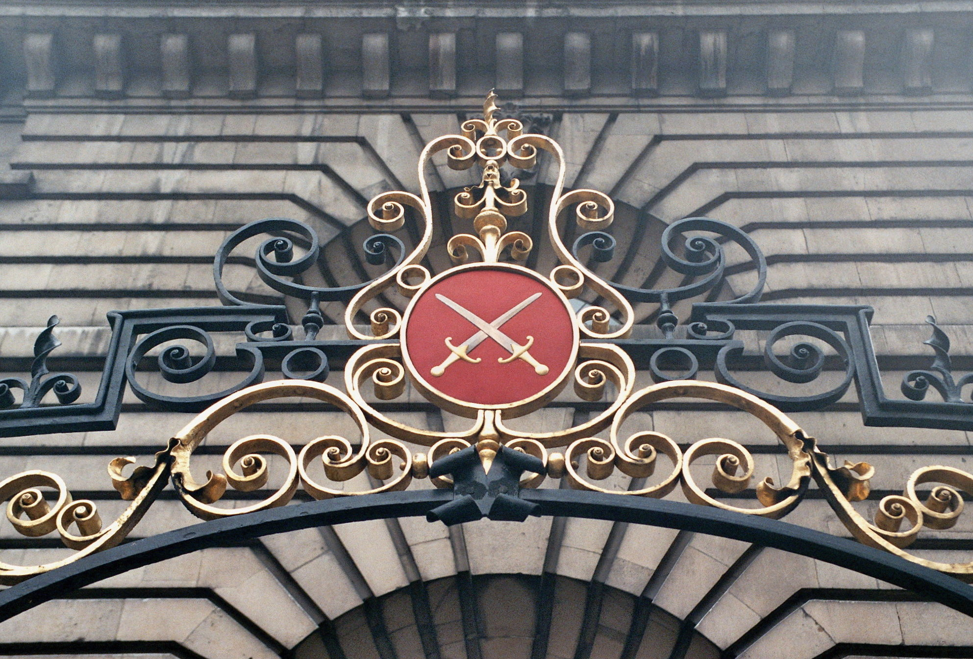 Representation of the coat of arms of the Diocese of London of the Church of England at St Mary Woolnoth church in the City of London